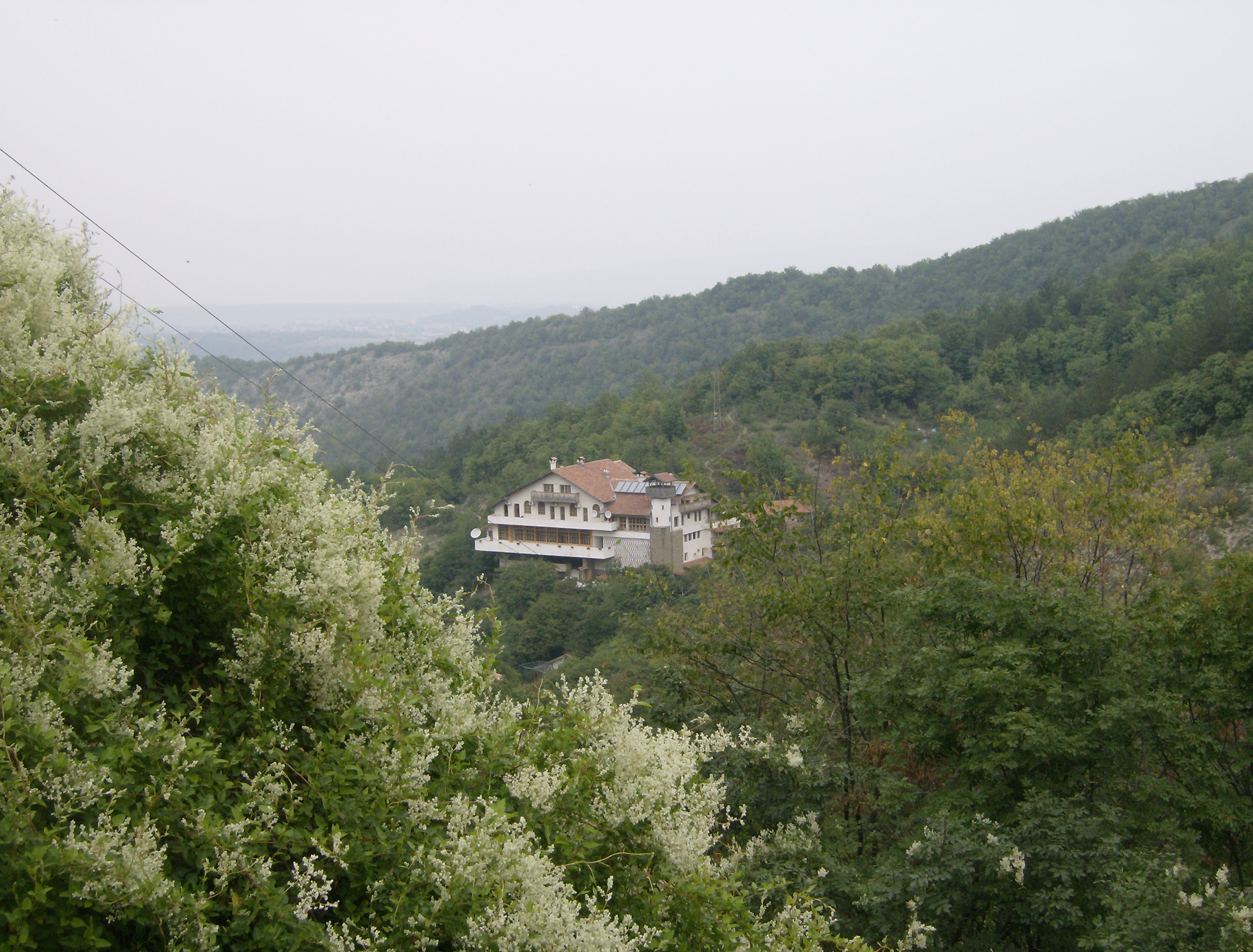 Preslav monastery — in Shumen Province, northeastern Bulgaria.